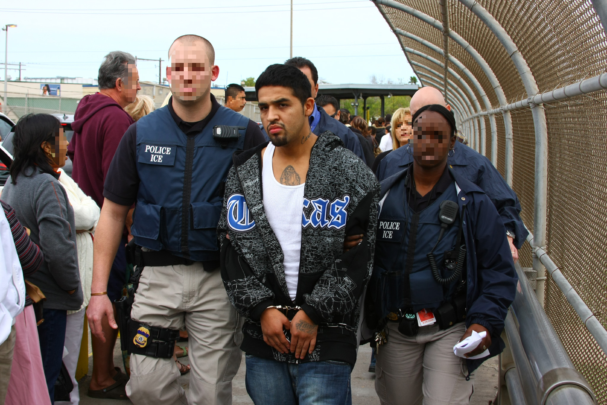 U.S. Immigration and Customs Enforcement Agents